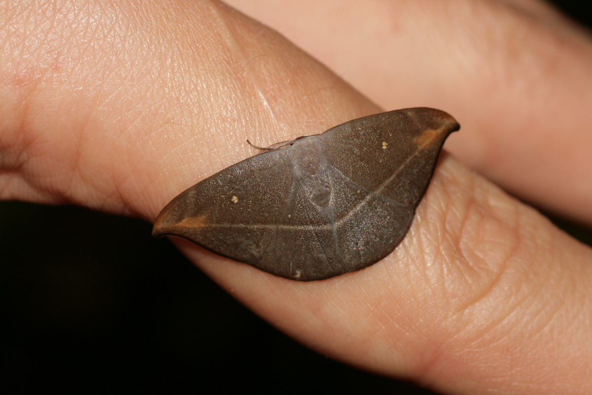 Albara reversaria Borneo, Crocker Range National Park. April 2009